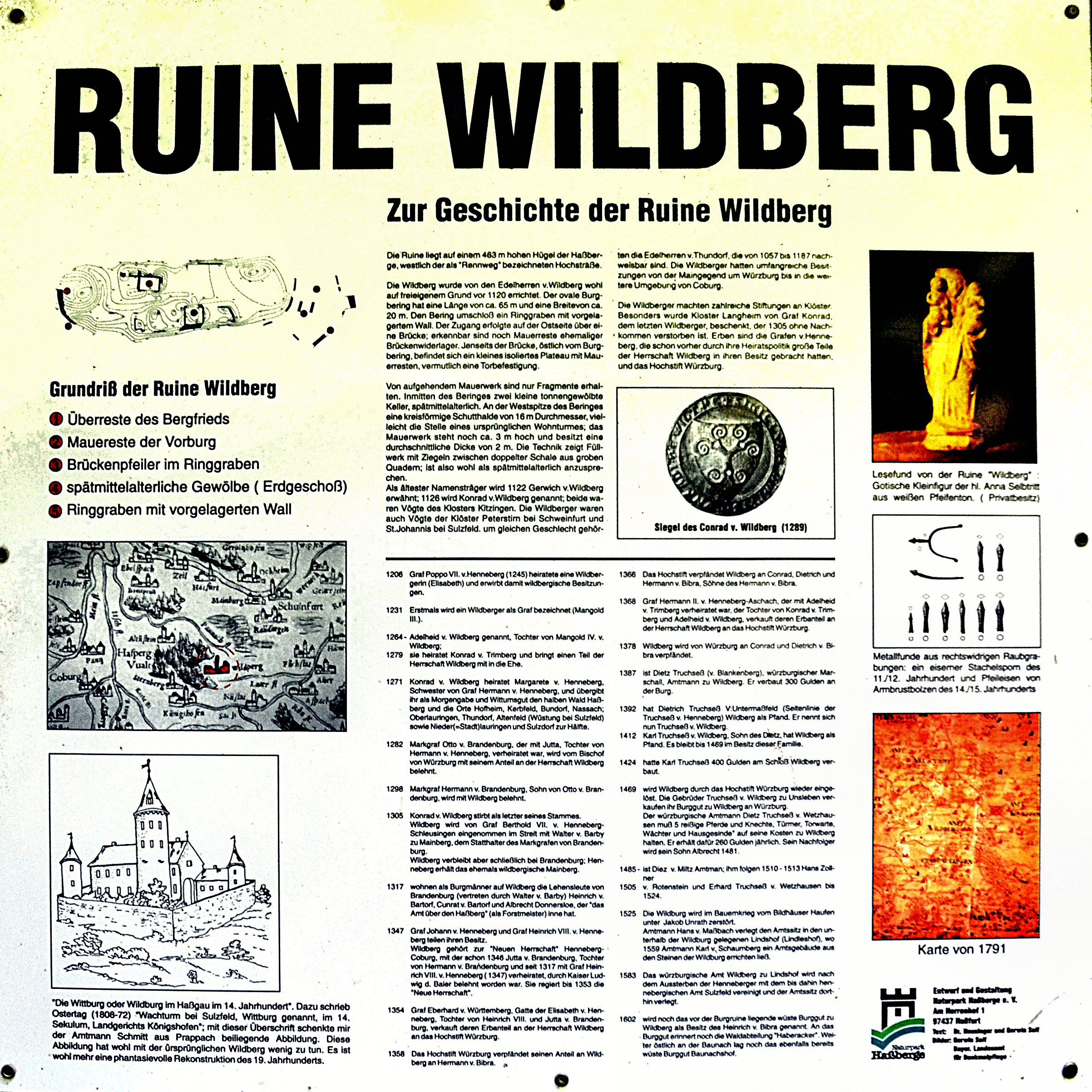 Pulblic sign at ruins of castle Wildberg in Landkreis Rhön-Grabfeld